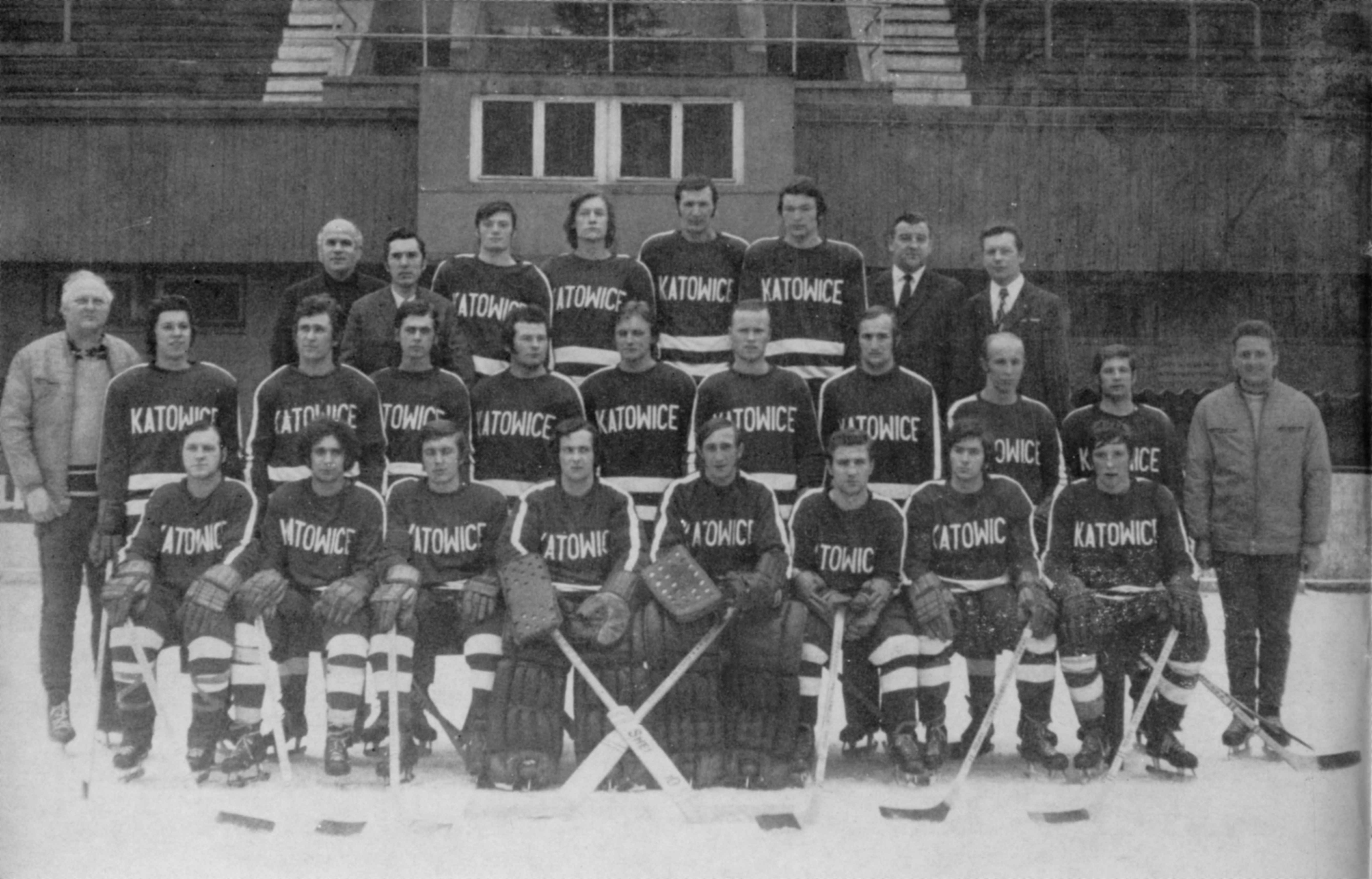 Premier league ice hockey team GKS „Górnik” from Katowice, Poland.